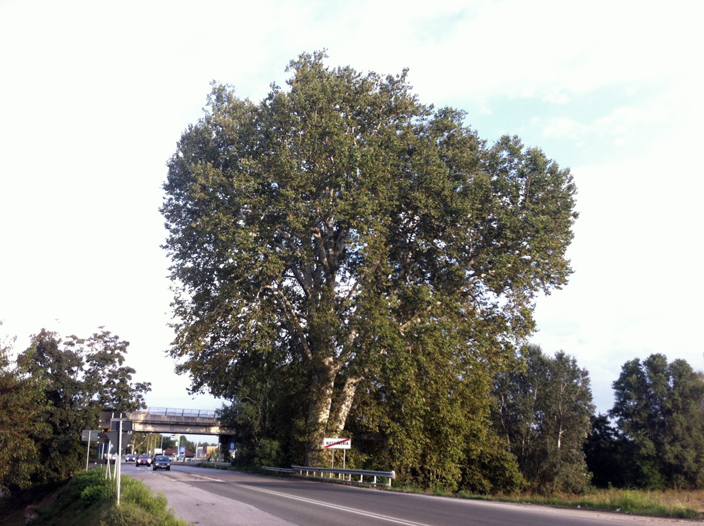 Napoleon's plane, Alessandria, Italy. Listed as Platanus occidentalis, but leaf shape suggests more likely Platanus × hispanica.